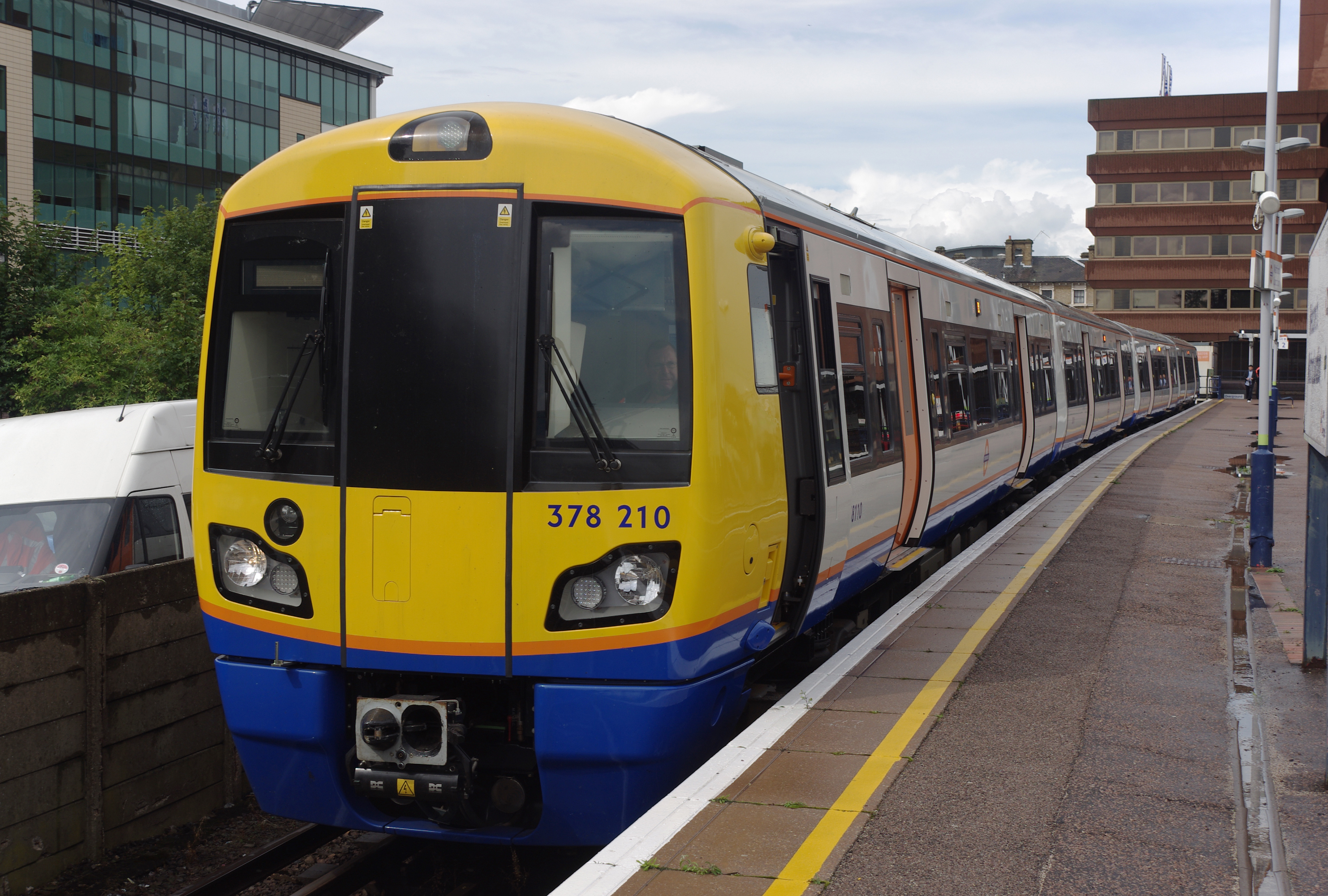 London Overground Capitalstar EMU 378210 at Watford Junction with a service from London Euston. This photo was used in an article griping about early trains by Nick Jordan.